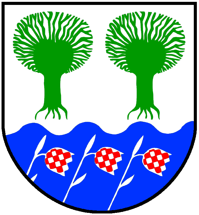 Coat of arms of the municipality Hetlingen in Schleswig-Holstein, Germany.